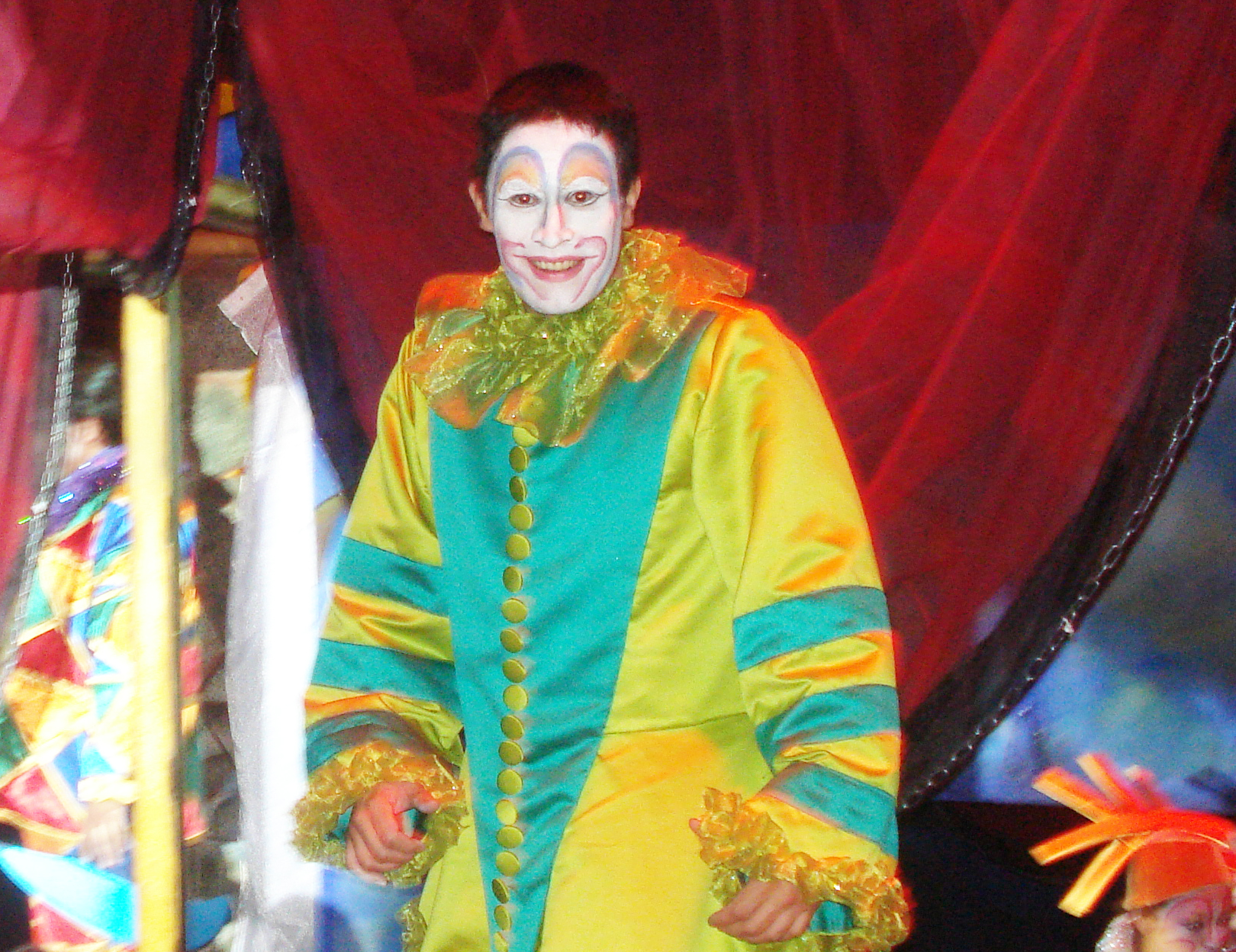 Carlos Barragán en Pagliacci